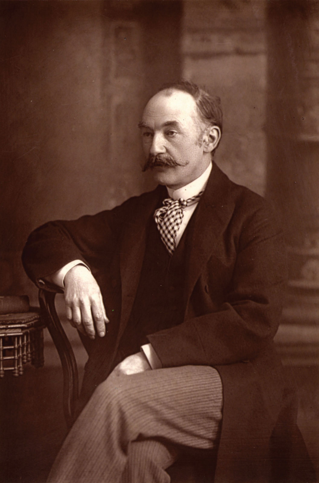 Victorian Age Poet and Writer